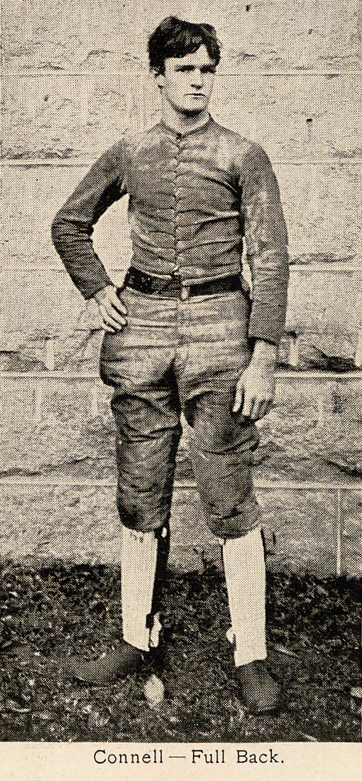 An image of Phil Connell, Full Back for the Vanderbilt Commodores football team in 1894. This image is from the "Supplement to 'The Southern Magazine' for February, 1895" where other members of the 1894 team can be seen.